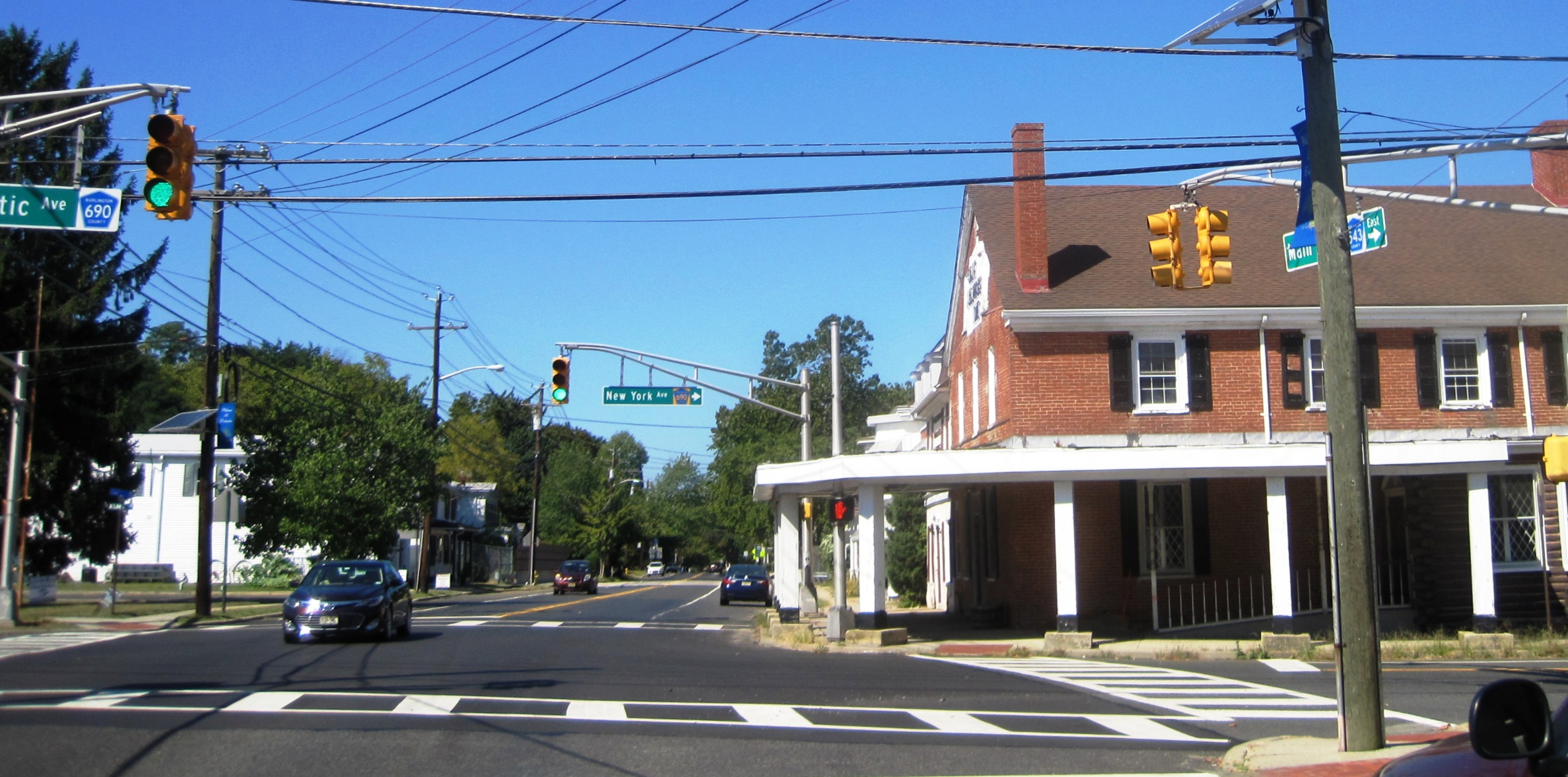 Photo of the unincorporated community of Columbus, New Jersey within Mansfield Township, Burlington County. Photo taken along westbound Main Street (County Route 543) at the intersection of Atlantic Avenue / New York Avenue (CR 690, former New Jersey Route 170).